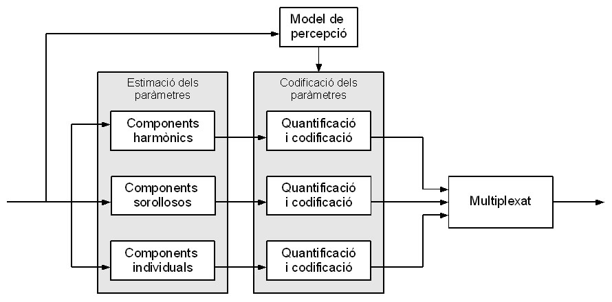 Parametric codec